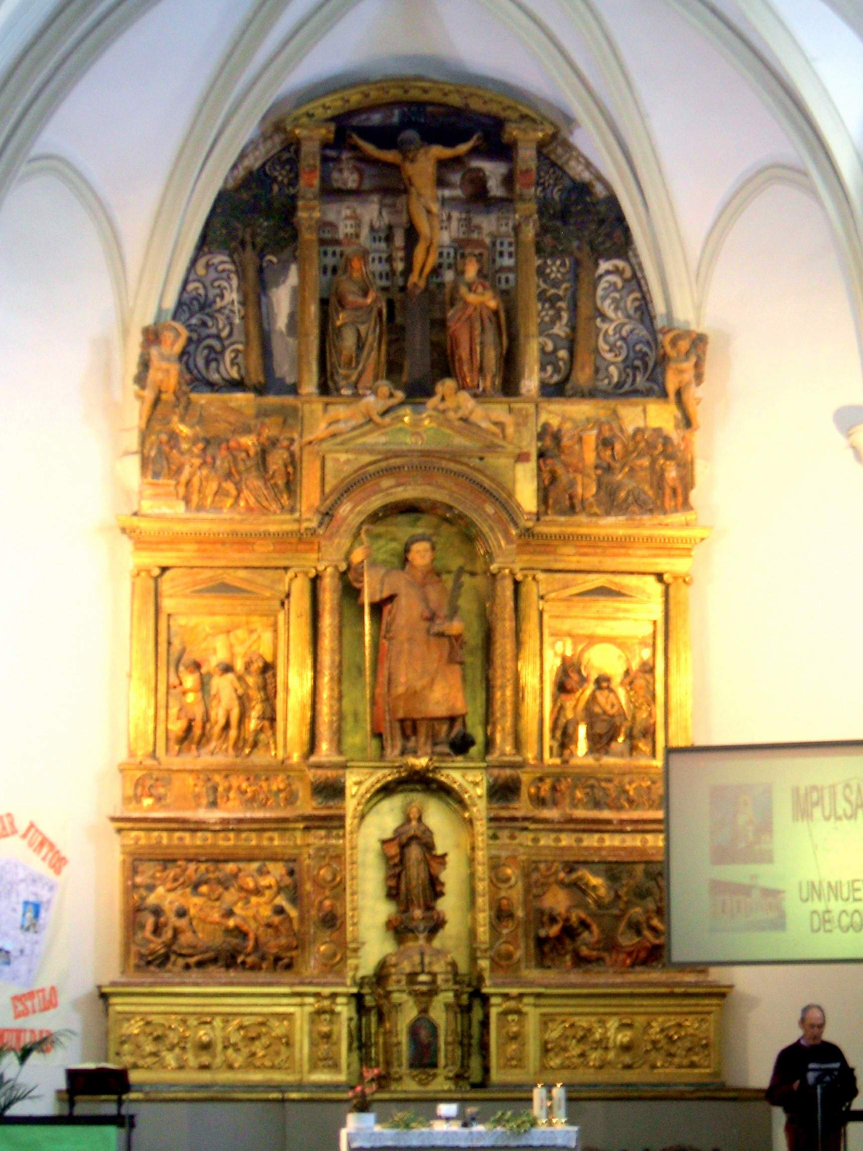 Retablo mayor renacentista de la iglesia parroquial de San Vicente de Arriaga (Vitoria-Gasteiz, Euskadi, España)